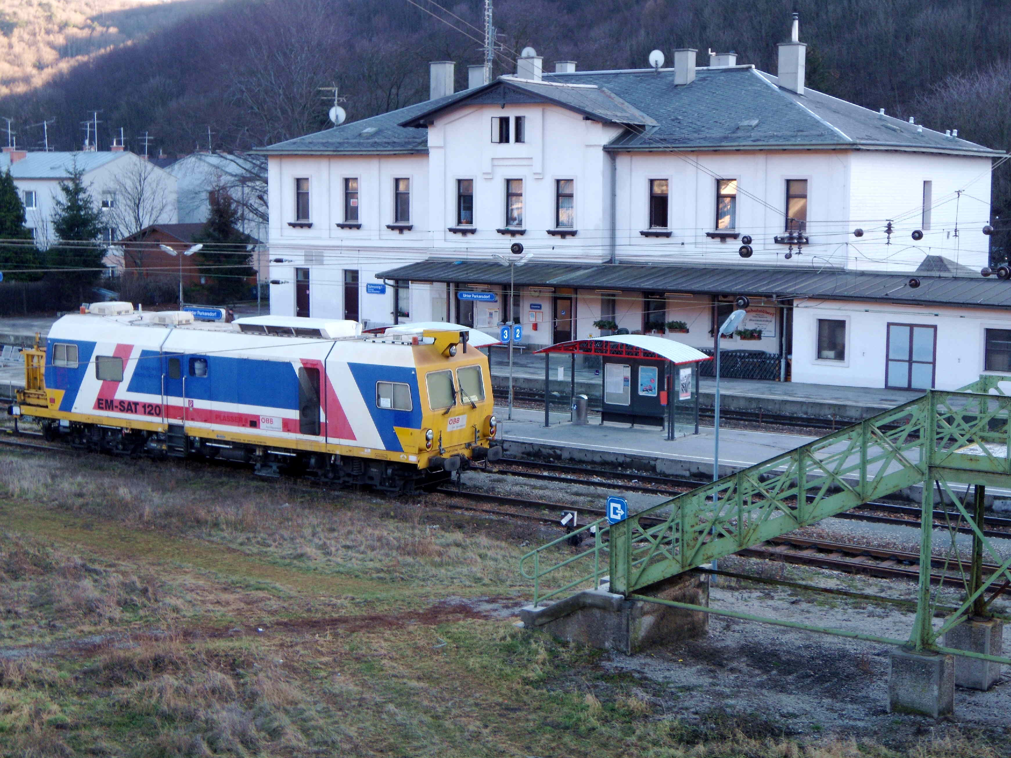 Railway Station 3002, Unter Purkersdorf, Lower Austria